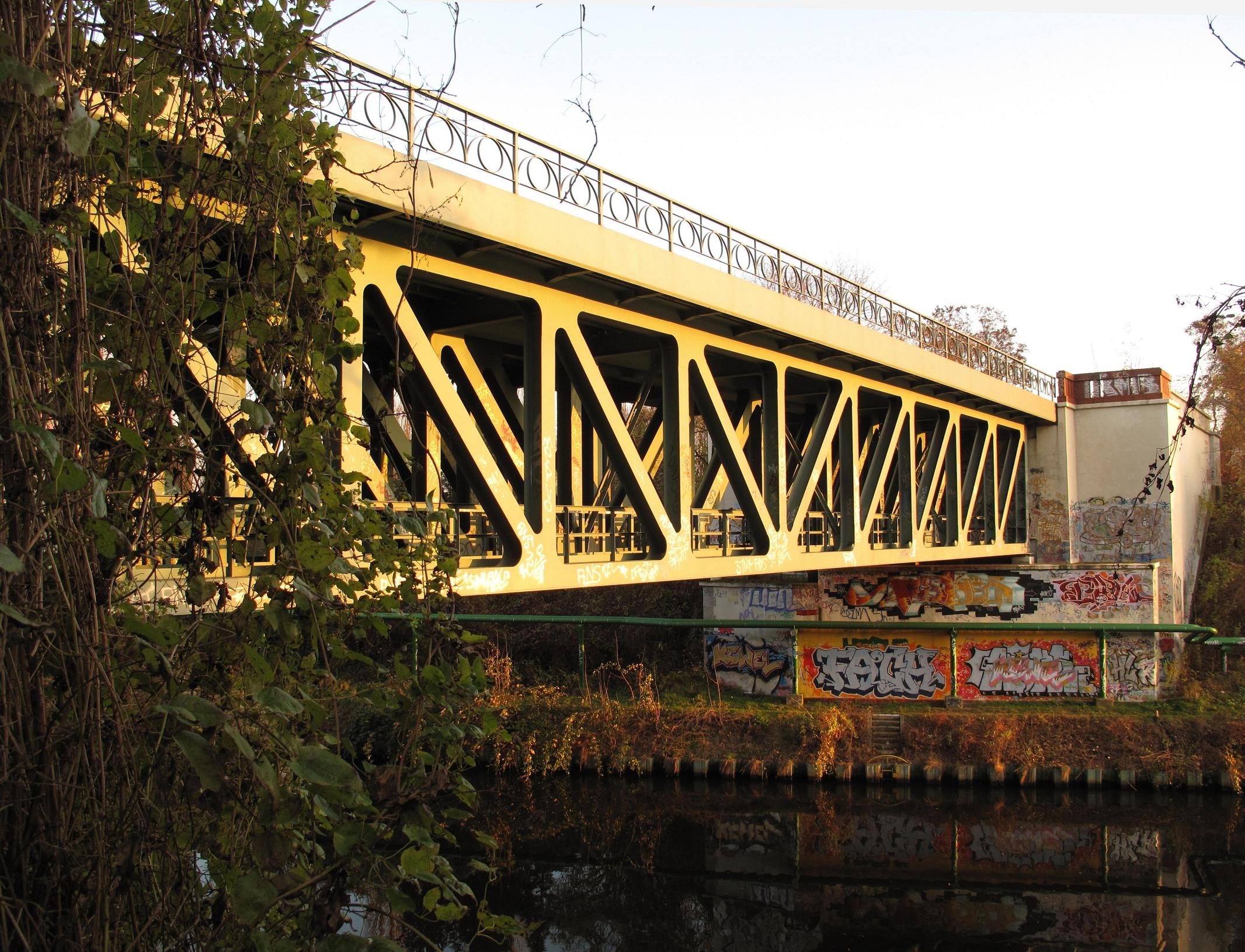 Railway bridge of the Dresdener Bahn in Berlin-Tempelhof crossing the Teltowkanal (canal). It was built in 1906 and several times renewed since then.